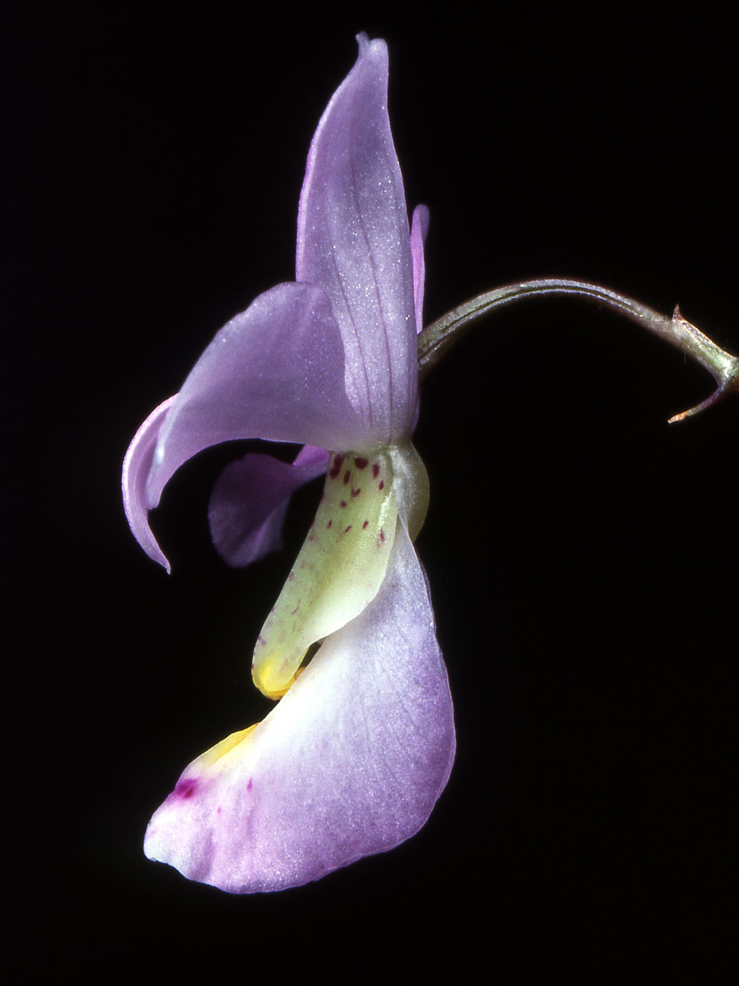 Barkeria dorotheae